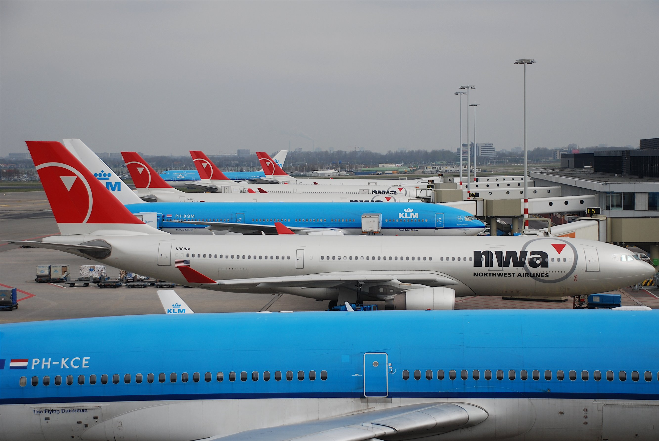 Northwest Airlines Airbus A330-200: N861NW@AMS;19.04.2008/508fx